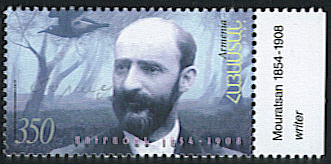 Stamp of Armenia